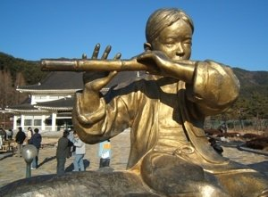 The statue in front of Hanguk Gasamunhakgwan (Korean Gasa Museum) in Damyang, Jeollanam-do, Republic of Korea